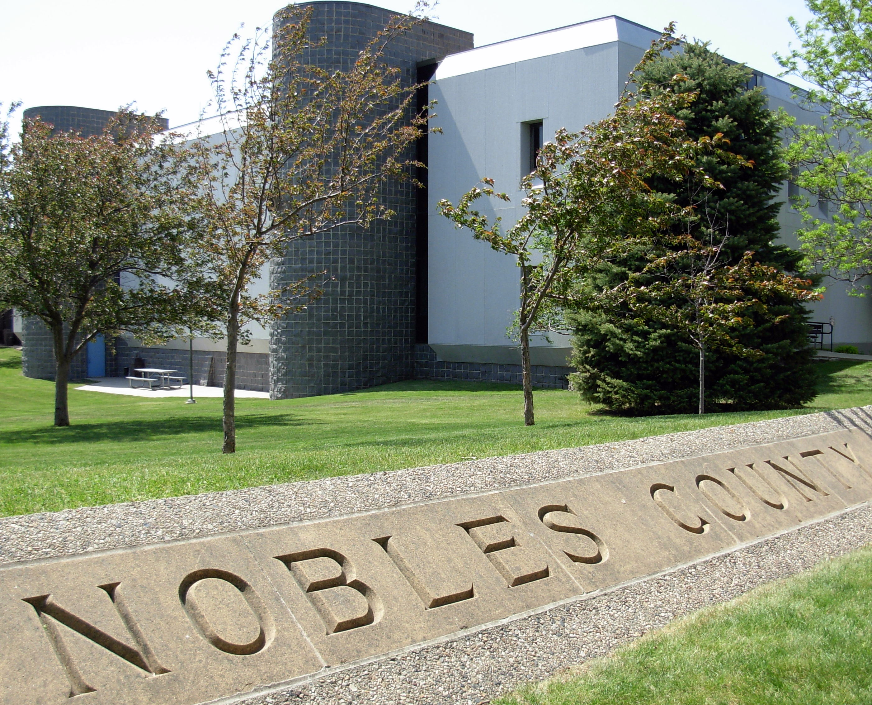 Nobles County Courthouse in Worthington, Minnesota